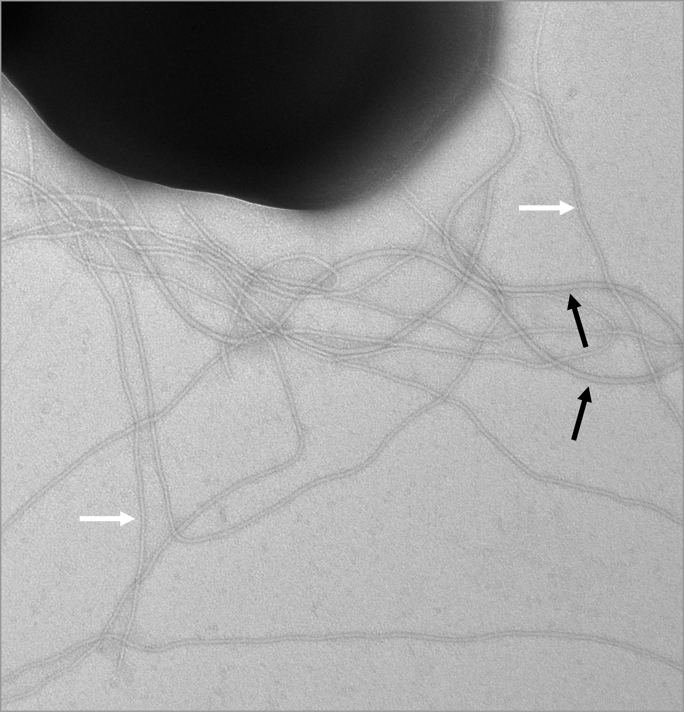 Cell surface structures of Sulfolobus acidocaldarius